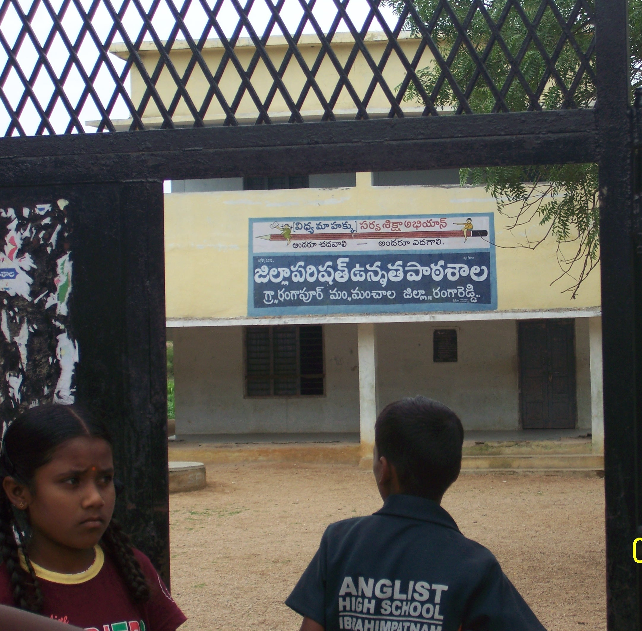 photos of villages in Telangana State